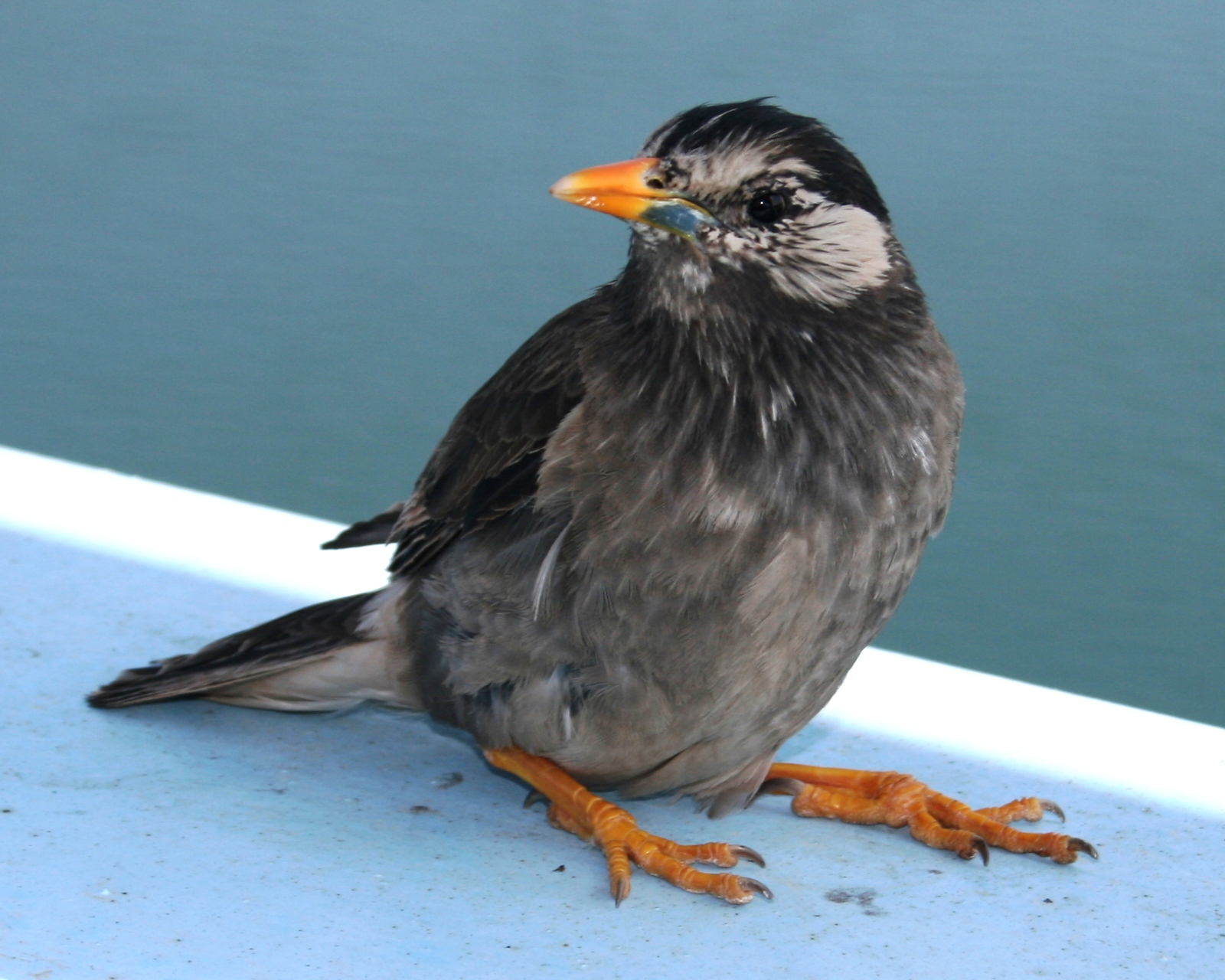 Spodiopsar cineraceus (Sturnus cineraceus) on the brige of Kiso River, Japan.